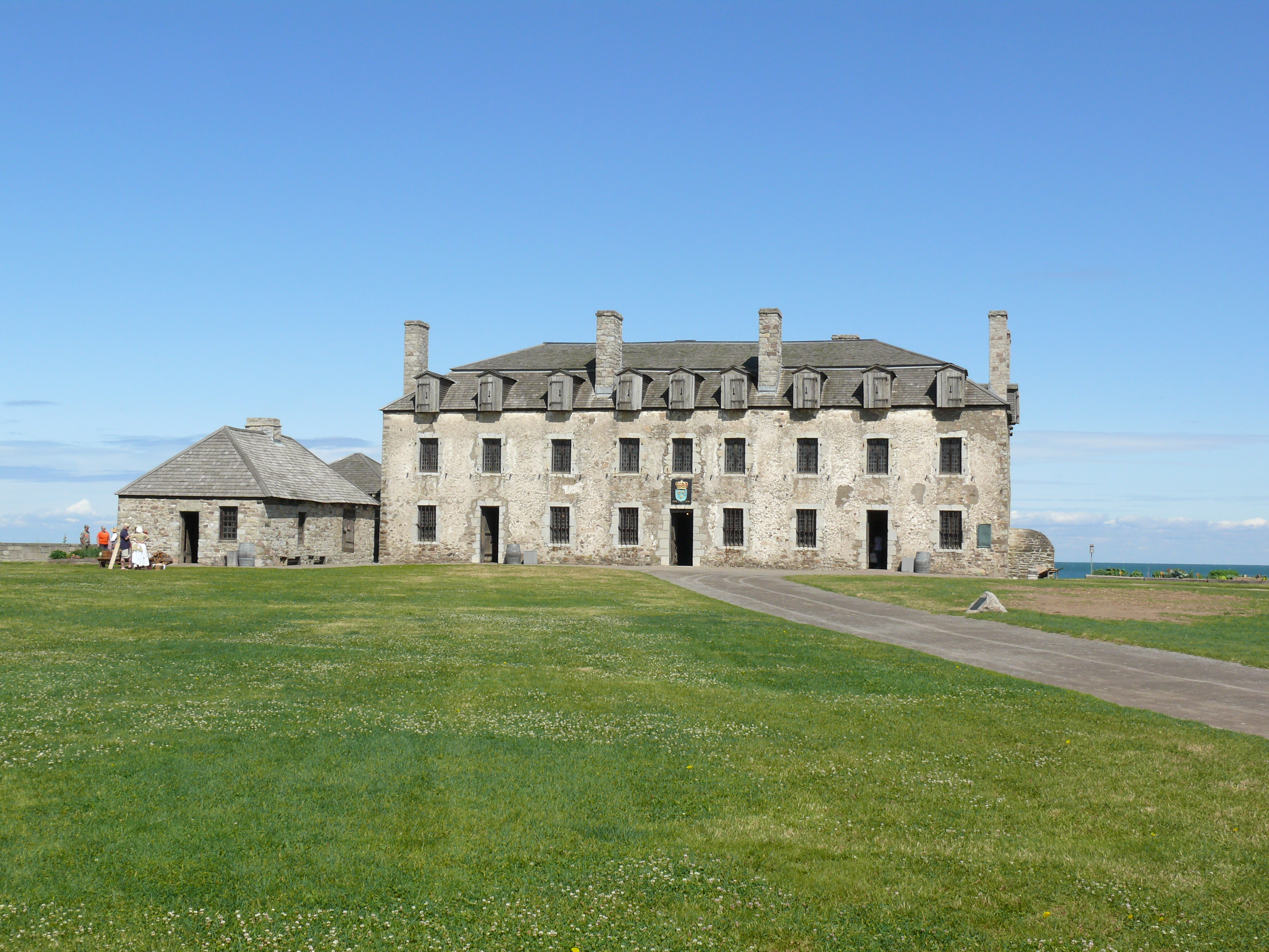 French castle at Fort Niagara. Fort Niagara is a fortification located near Youngstown, New York, on the eastern bank of the Niagara River at its mouth, on Lake Ontario.